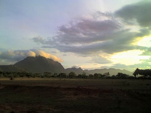 A view of the countryside of Kovaipudur, June 2007, by Dhaval Momaya.